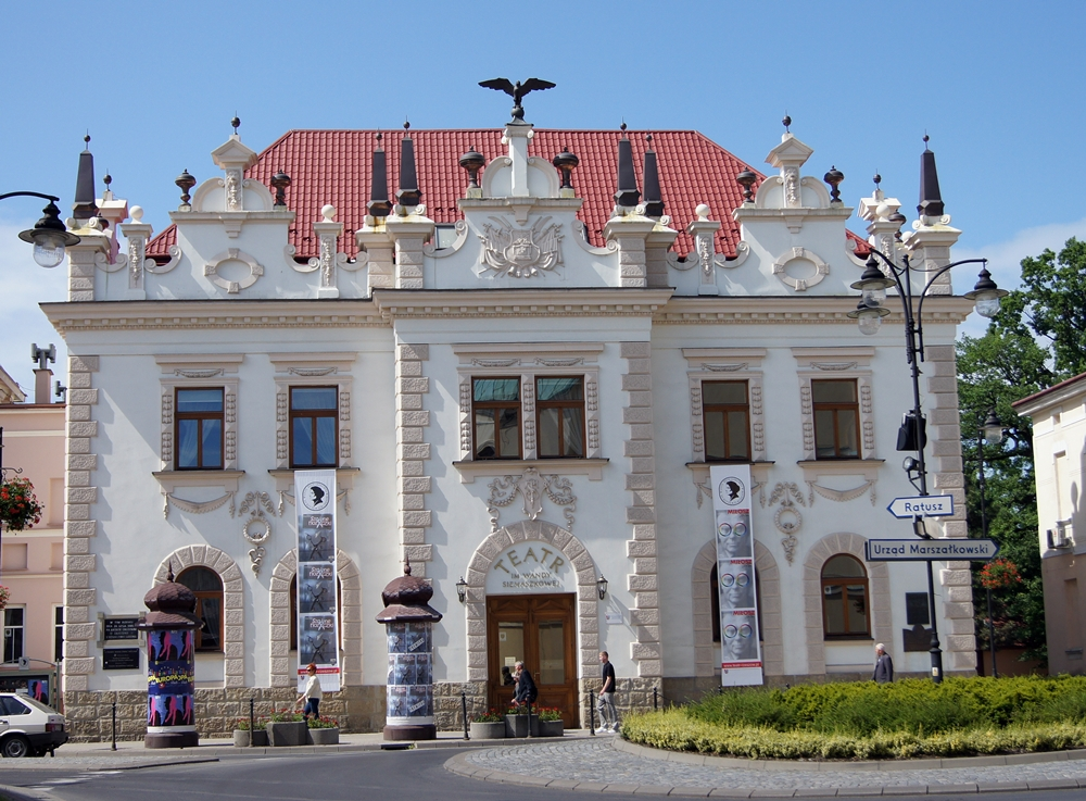 Teatr dramatyczny im. W. Siemaszkowej w Rzeszowie